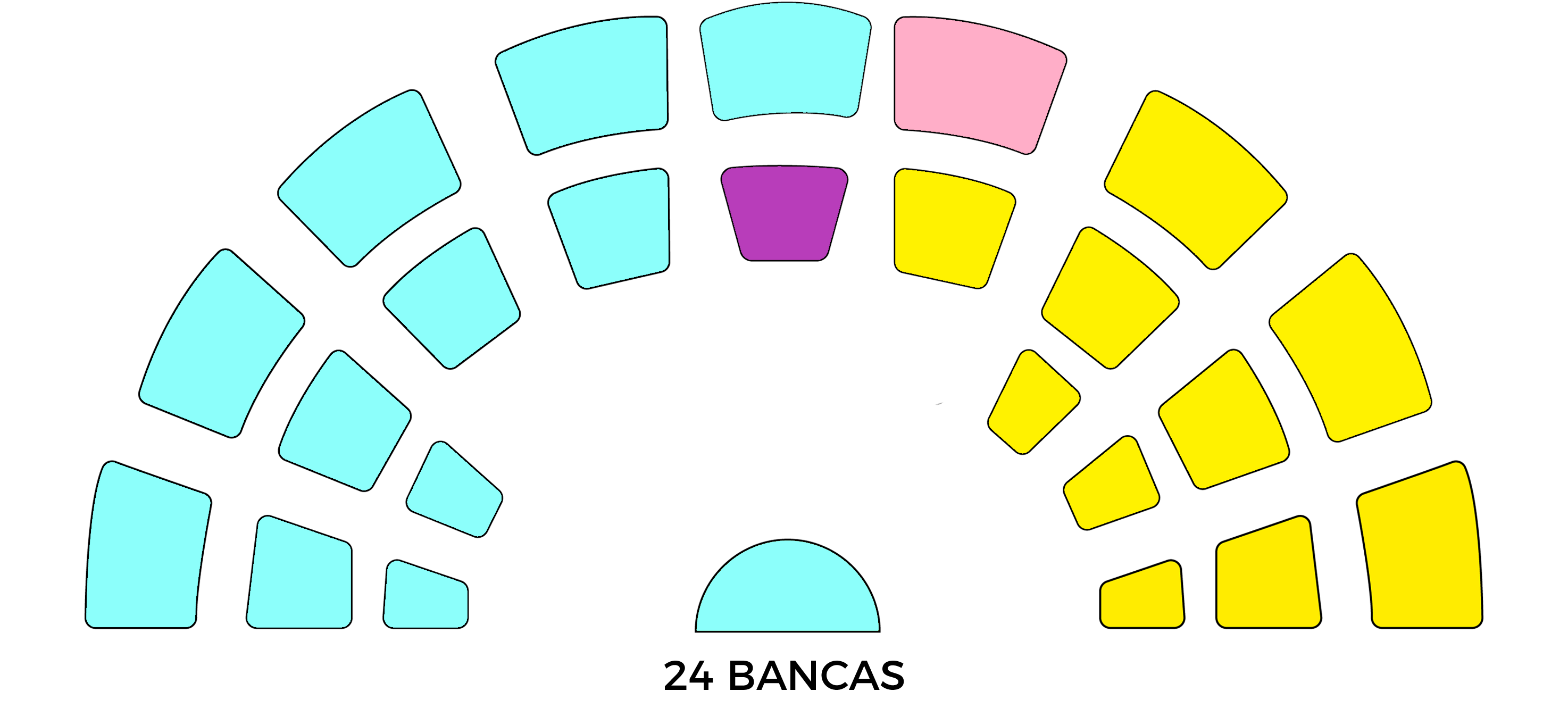 Deliberative Council of Admiral Brown